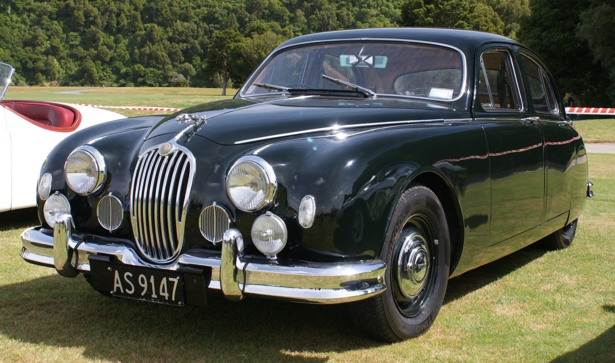 Wellington British Car Club Day - Trentham Memorial Park - 14 Feb 2010